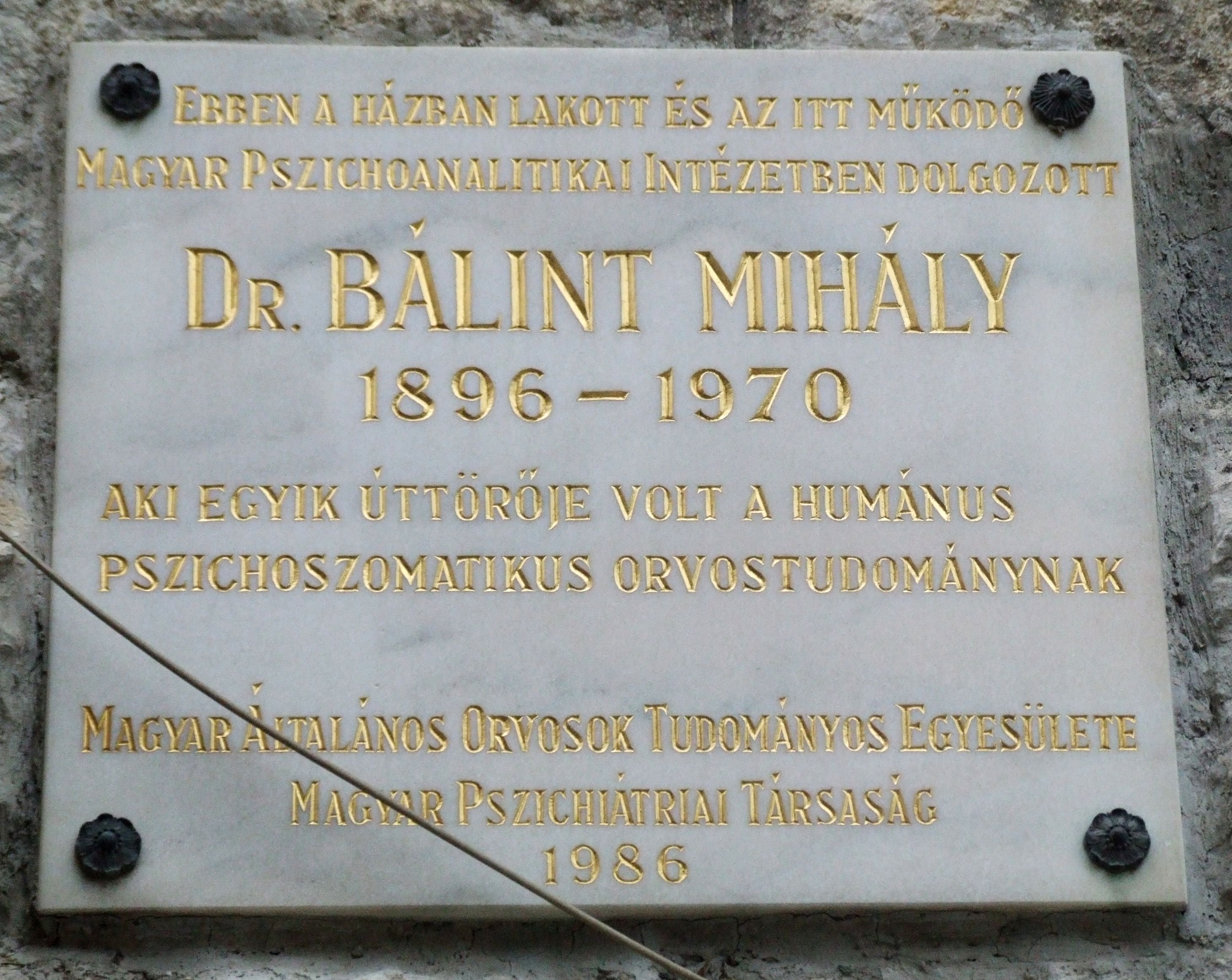 Mihály Bálint (physician) commemorative plaque in Budapest District I, Ág Street No 30